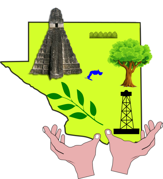 Made by Jaume Ollé. GFDL, Coat of arms of Peten Department, Guatemala